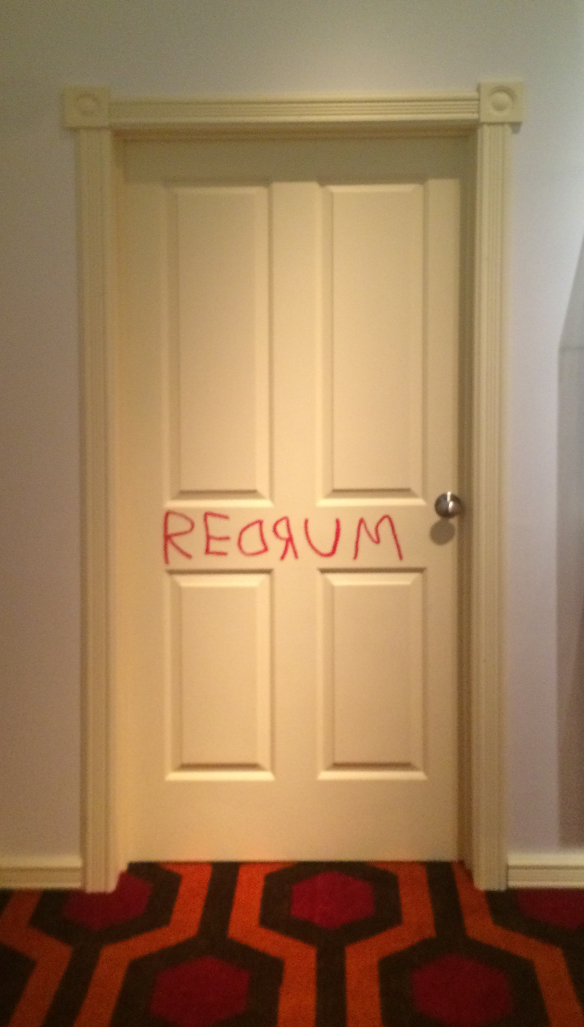 Replica of the scenography of the film The Shining. Stanley Kubrick: The Exhibit, TIFF, Canada.